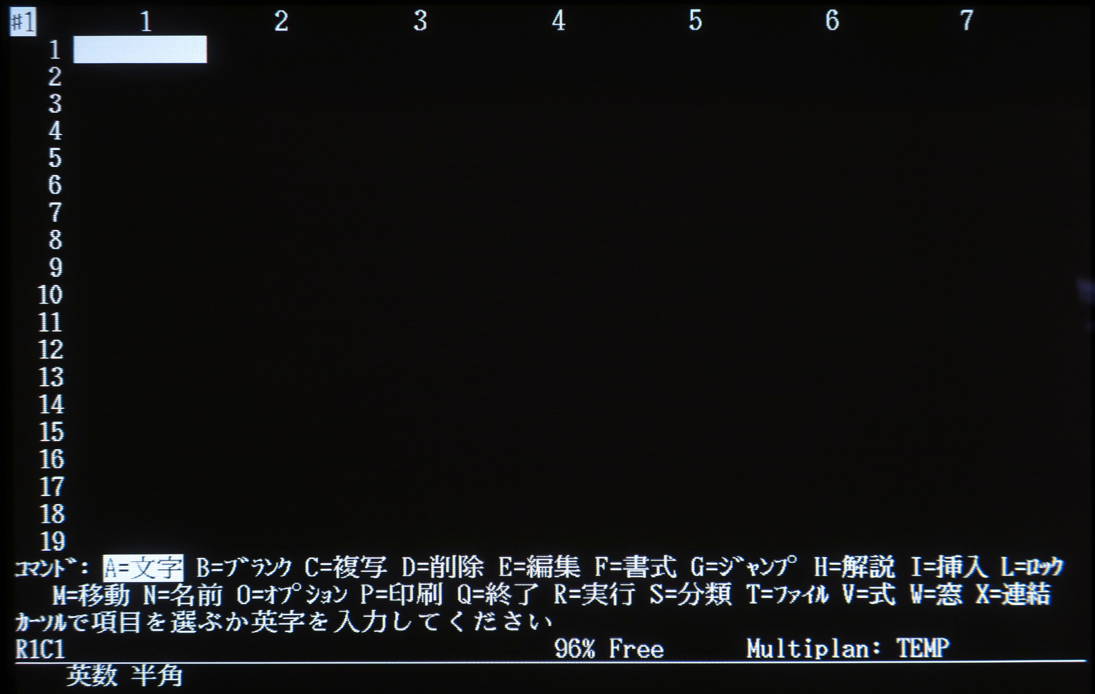 Screenshot of Microsoft Multiplan Version K3.11 (1987) running on the Nihongo DOS (Japanese IBM DOS) of IBM PS/55.